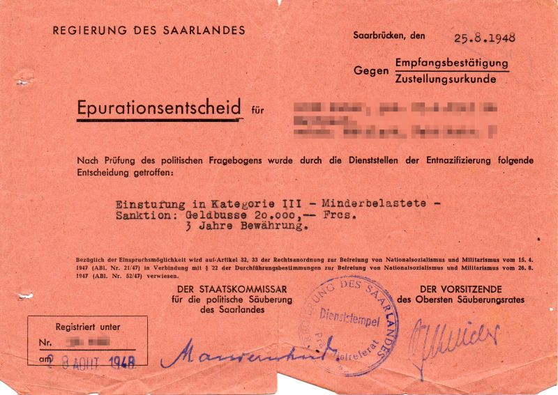 Example of a denazification decision in Saarland